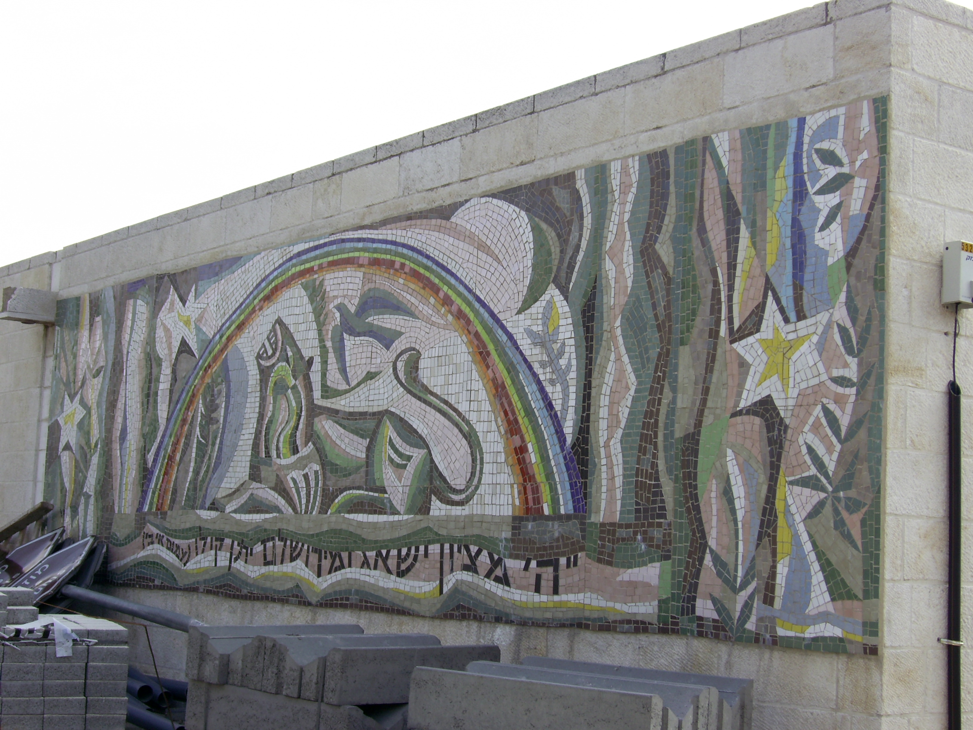 Jerusalem, Kiryat Moshe, corner of Sderot Herzl and Sderot Wolfson, lion Mosaic with biblical verse : "The LORD will roar from Zion, and utter his voice from Jerusalem" Amos 1:2. Jerusalem